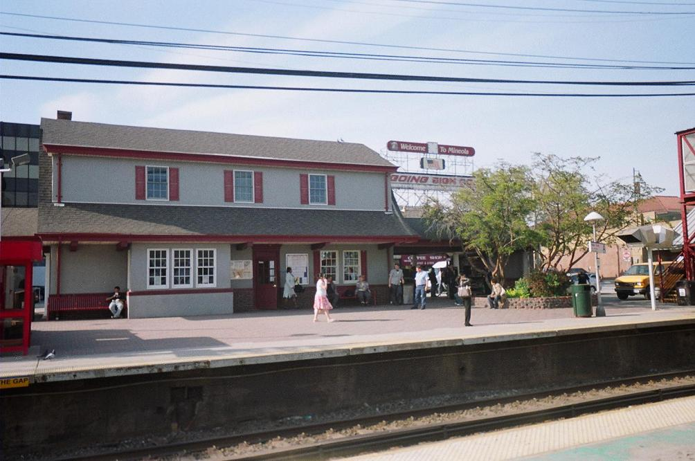 Main station house of Mineola (LIRR station), with long-established sign-making company welcoming commuters to Mineola, New York. Not shown are the large parking garages, pedestrian bridges, and matching enclosed shelter on the eastbound platform.